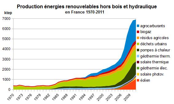 Renewable energy production in France except wood and hydro, 1970-2011 data source : "Pégase" database from Ministry of Ecology